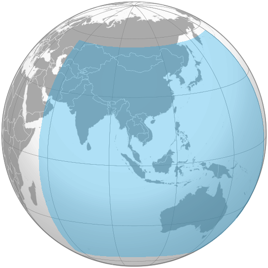 coverage poylgon of BeiDou Navigation Satellite System since 2012: 55°E - 180°E, 55°S - 55°N